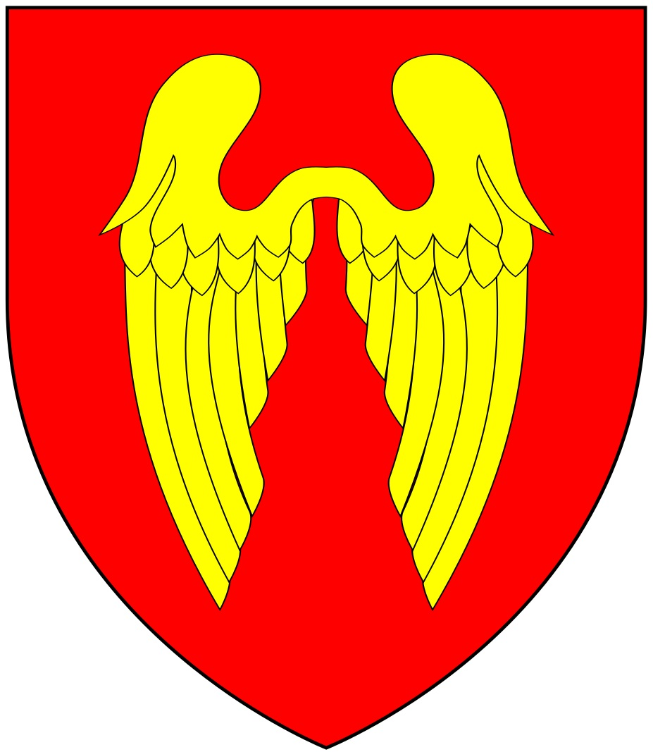 Armorial of Seymour: Gules, two wings conjoined in lure or